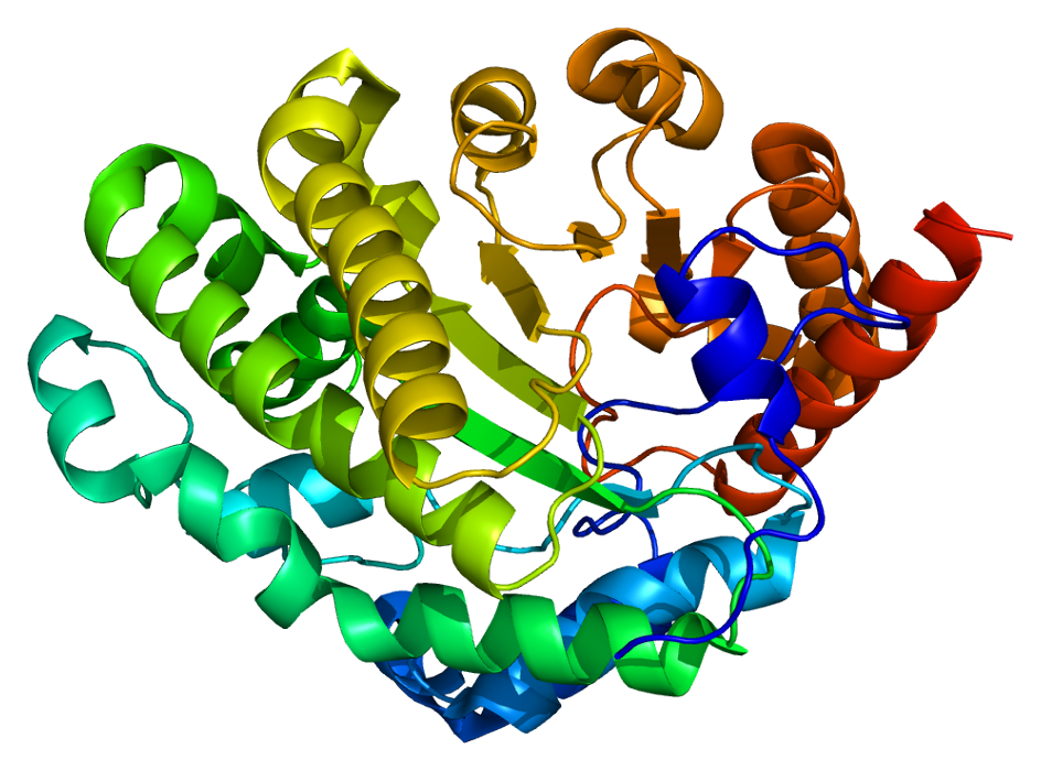 Structure of the UROD protein. Based on PyMOL rendering of PDB 1jph.